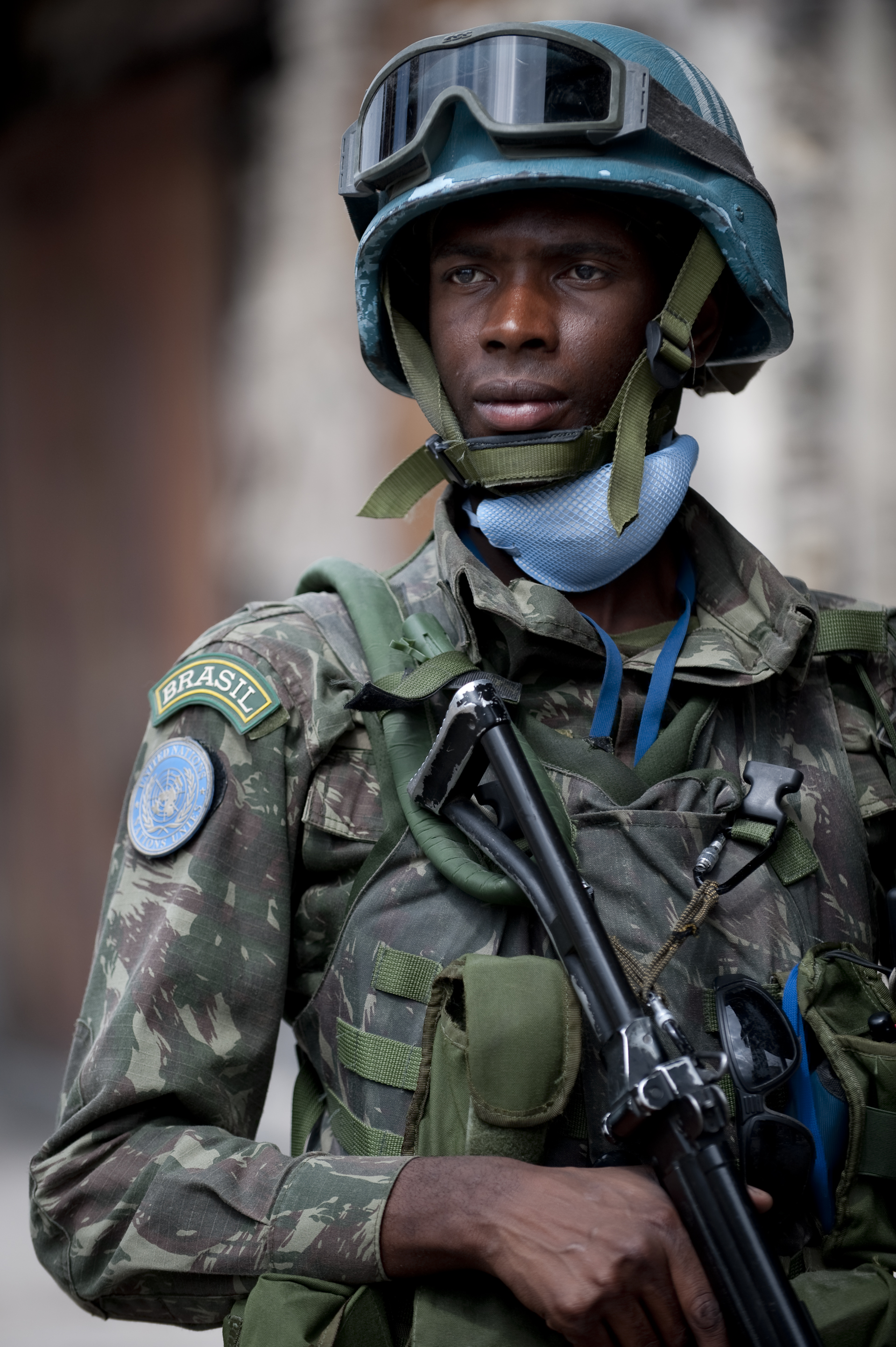 Maicon Alcântara de Oliveira Brazilian soldier stands security in Port-au-Prince, Haiti, during a visit by U.S. Navy Adm. and Chairman of the Joint Chiefs of Staff Mike Mullen.